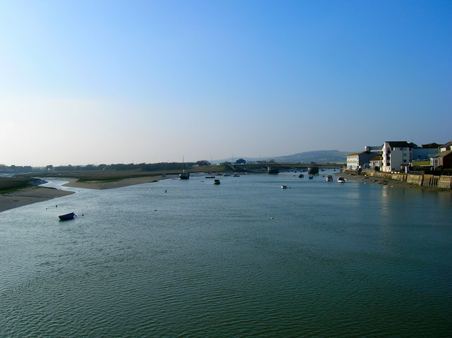 River Adur Looking towards Norfolk Bridge from the drawbridge. This was once coastline with the land to the left providing a safe anchorage before the spit grew and the pool which stretched across modern day Shoreham Airport to the edge of Lancing, silted up.